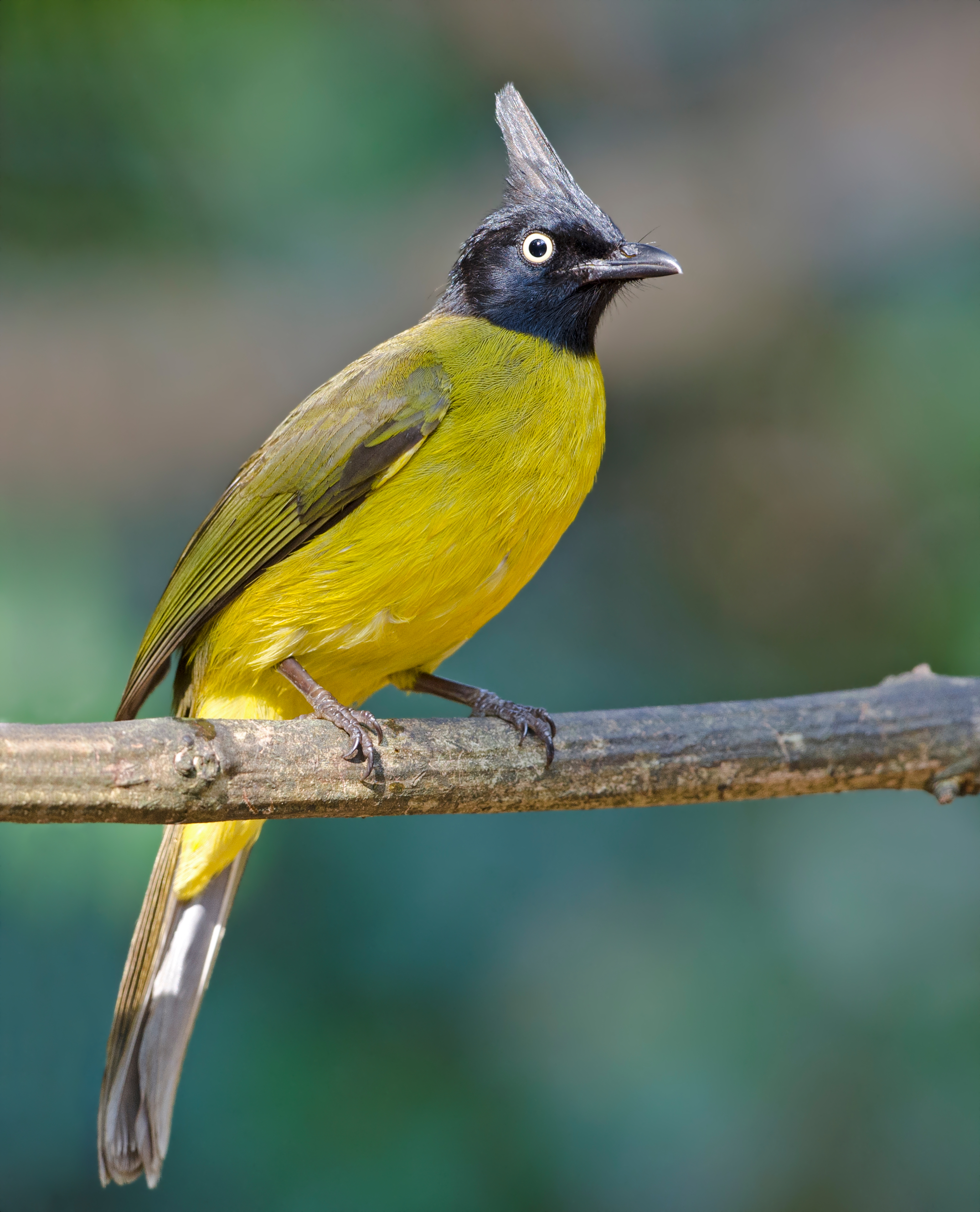 Black-crested Bulbul (Pycnonotus flaviventris) at Kaeng Krachan National Park, Thailand